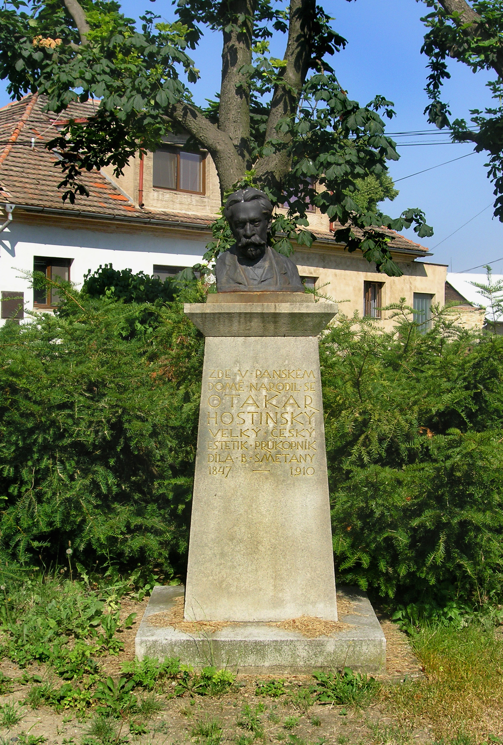 Bust of Otakar Hostinský in Martiněves, Czech Republic